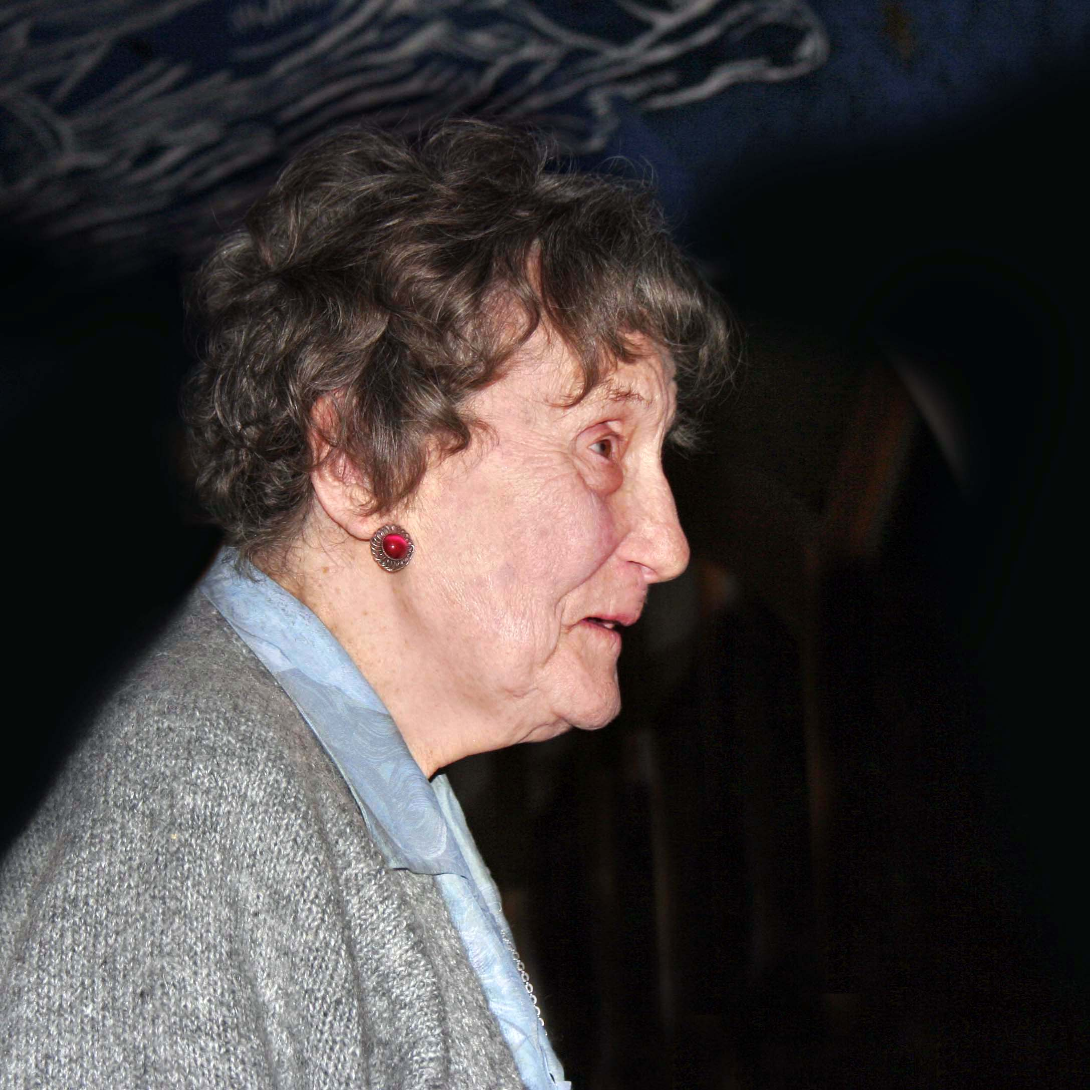 Erdélyi Zsuzsanna - 2011 01 02